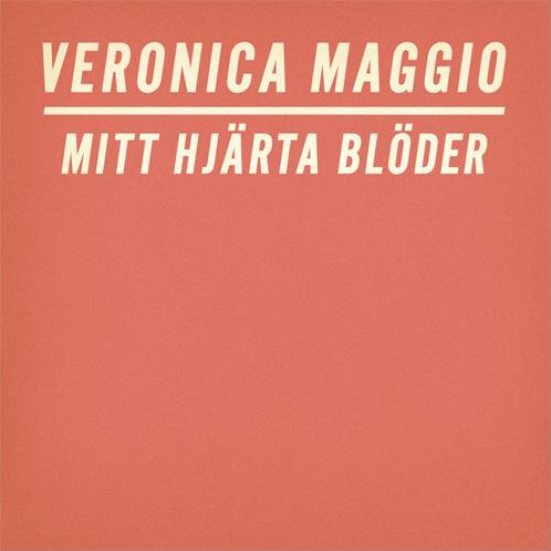 The cover of Veronica Maggio's single "Mitt hjärta blöder" (released 25 January 2012), from the album Satan i gatan (2011).